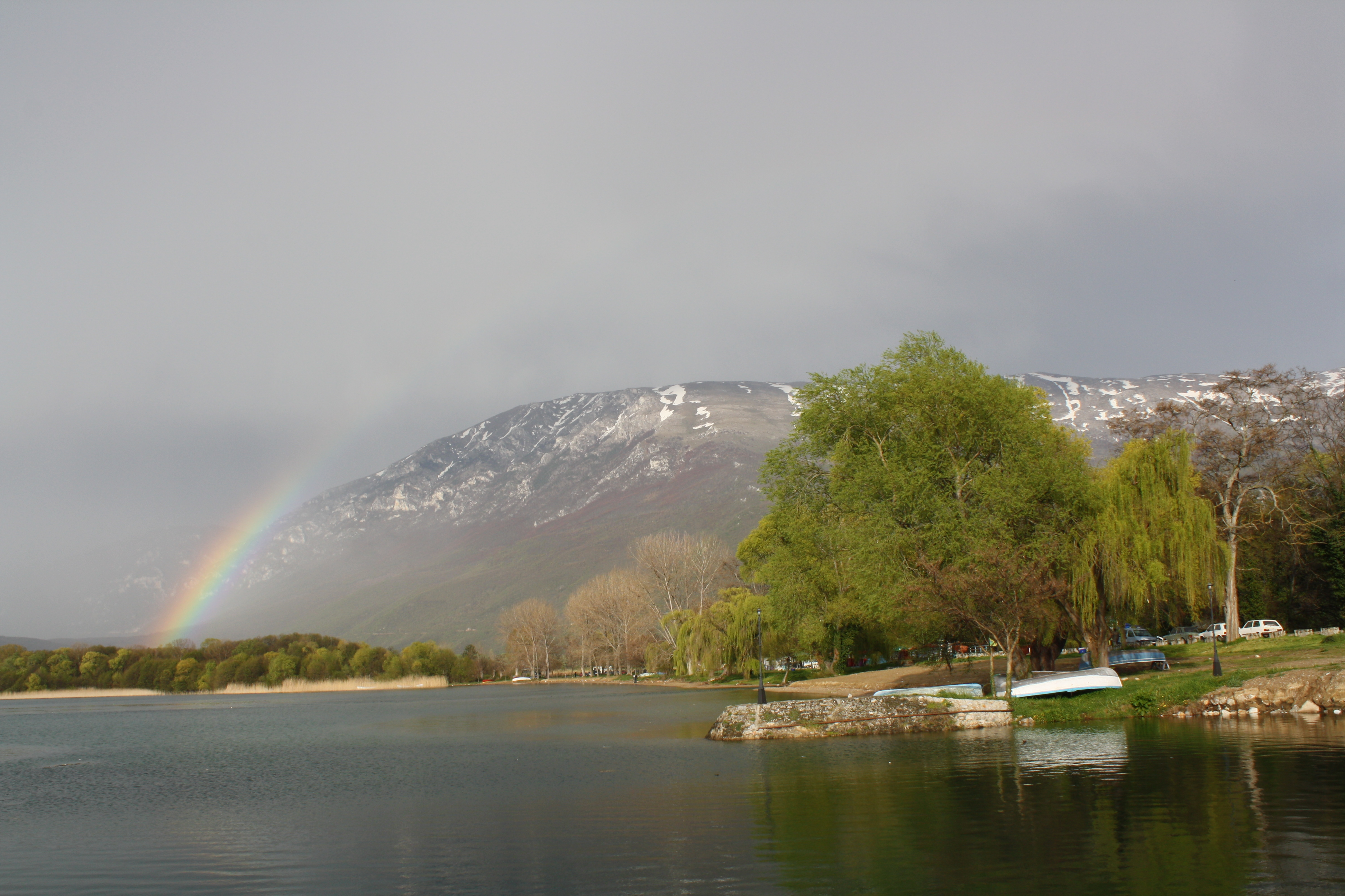 Rainbow over Ohrid Lake, Macedonia